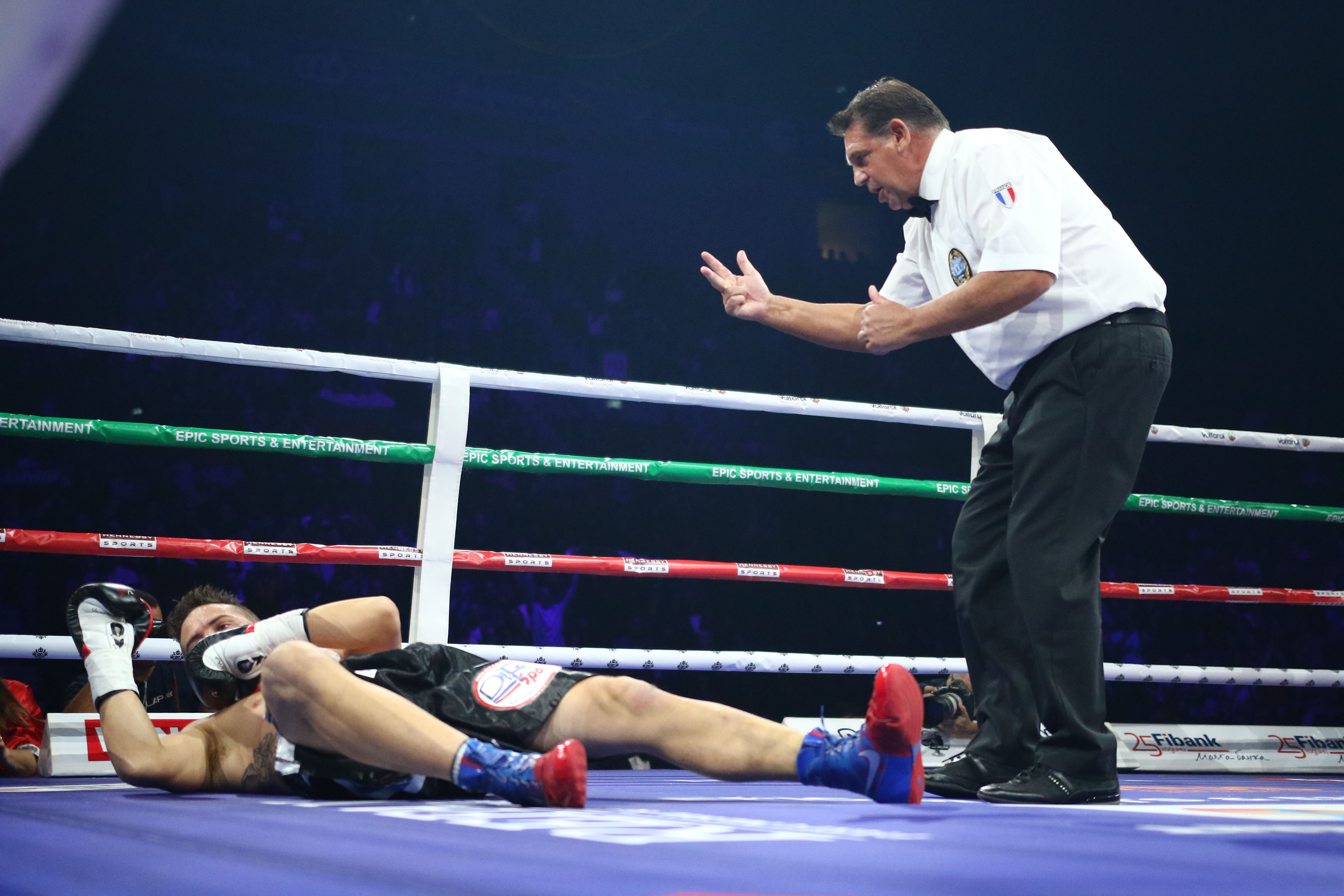 A knockout (abbreviated to KO or K.O.) is a fight-ending, winning criterion in several full-contact combat sports, such as boxing, kickboxing, muay thai, mixed martial arts, karate, some forms of taekwondo and other sports involving striking, as well as fighting-based video games. A full knockout is considered any legal strike or combination thereof that renders an opponent unable to continue fighting.